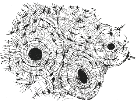 Transverse section of compact tissue bone. Magnified. (Sharpey.)